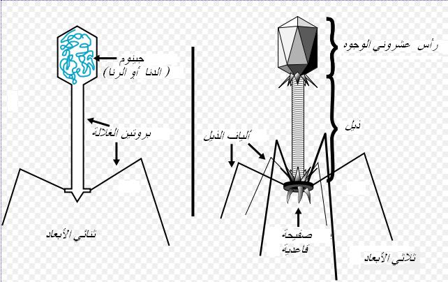 Diagram of bacteriophage structure